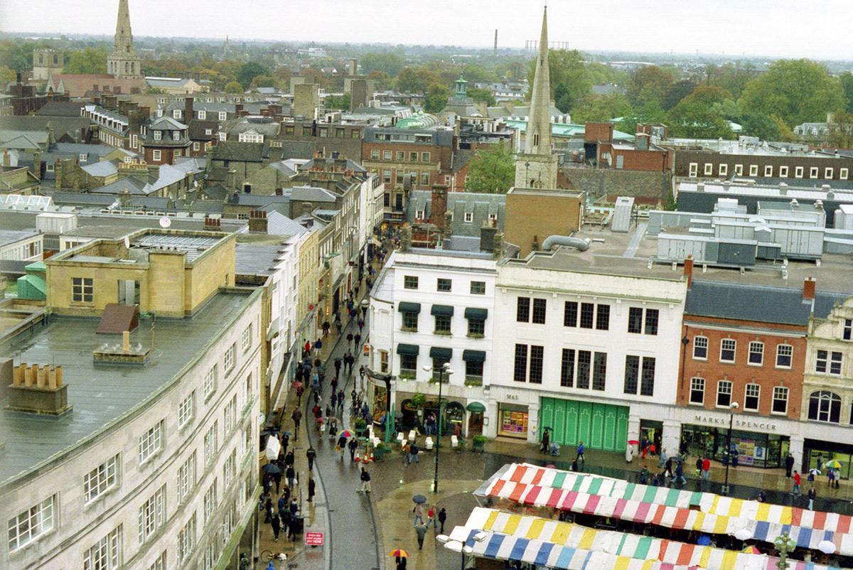 A view of the university market area in Cambridge from St. Mary's